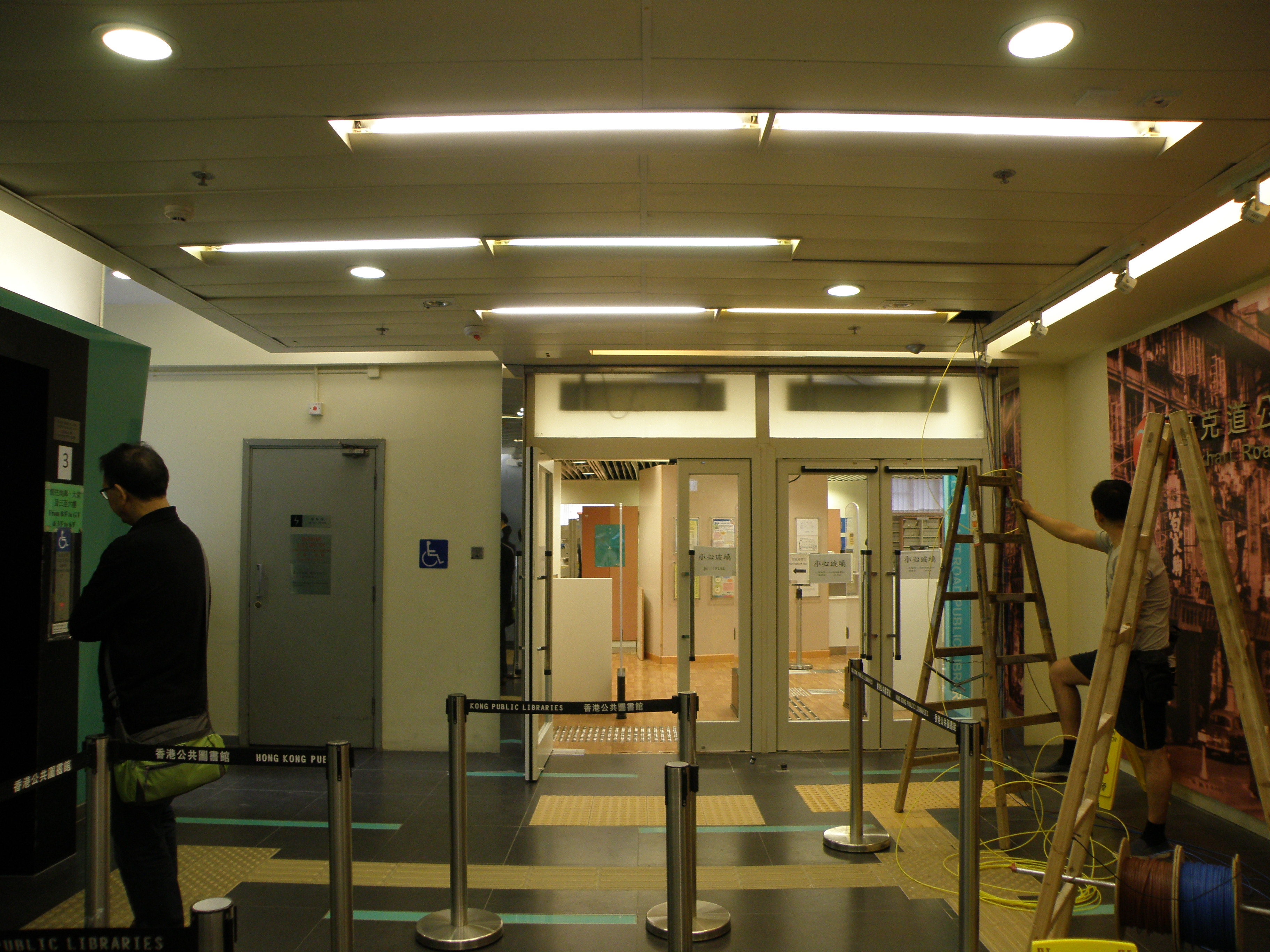 Lockhart Road Public Library in Wan Chai, Hong Kong.